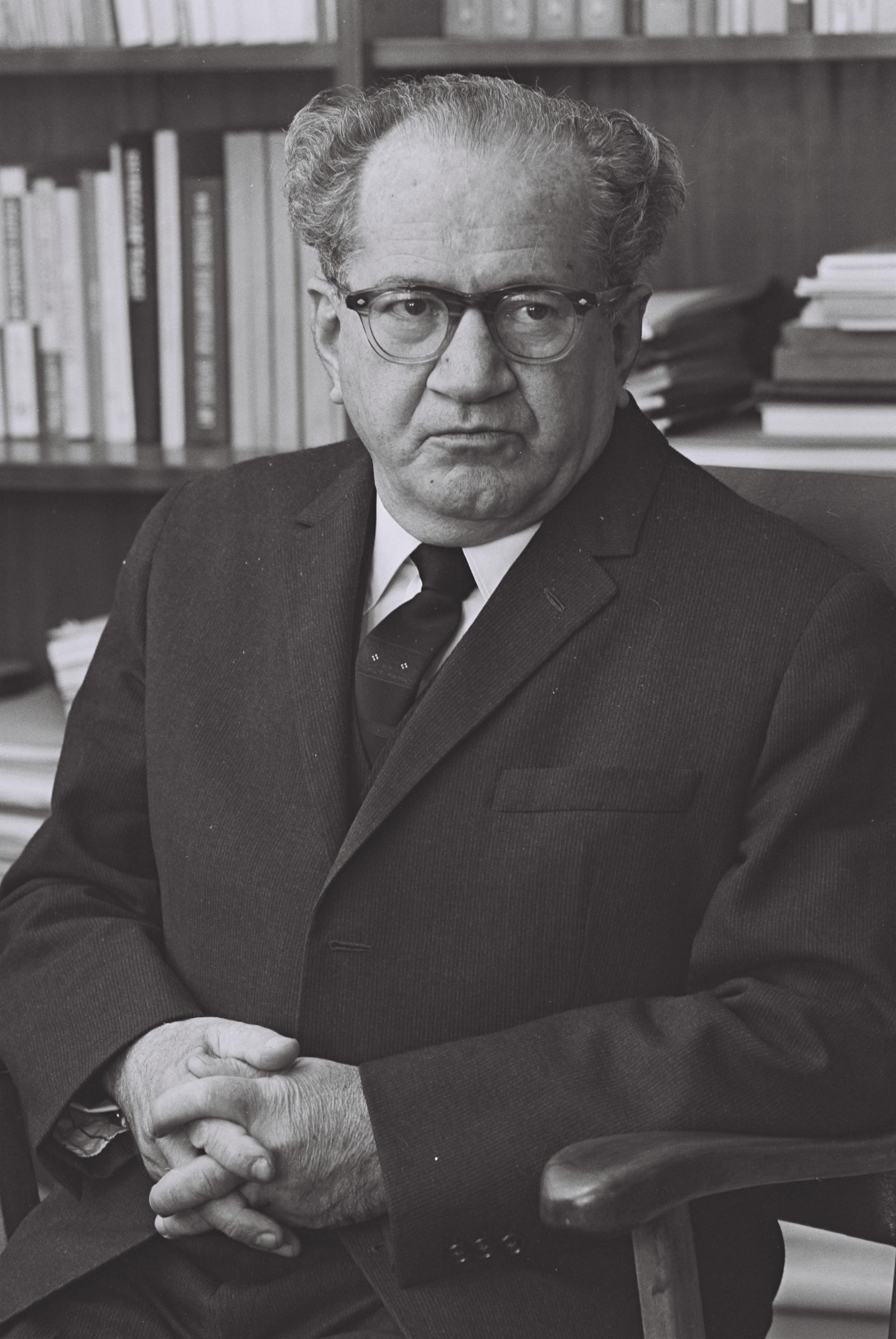 MINISTER OF TRADE AND INDUSTRY ZEEV SHAREF.